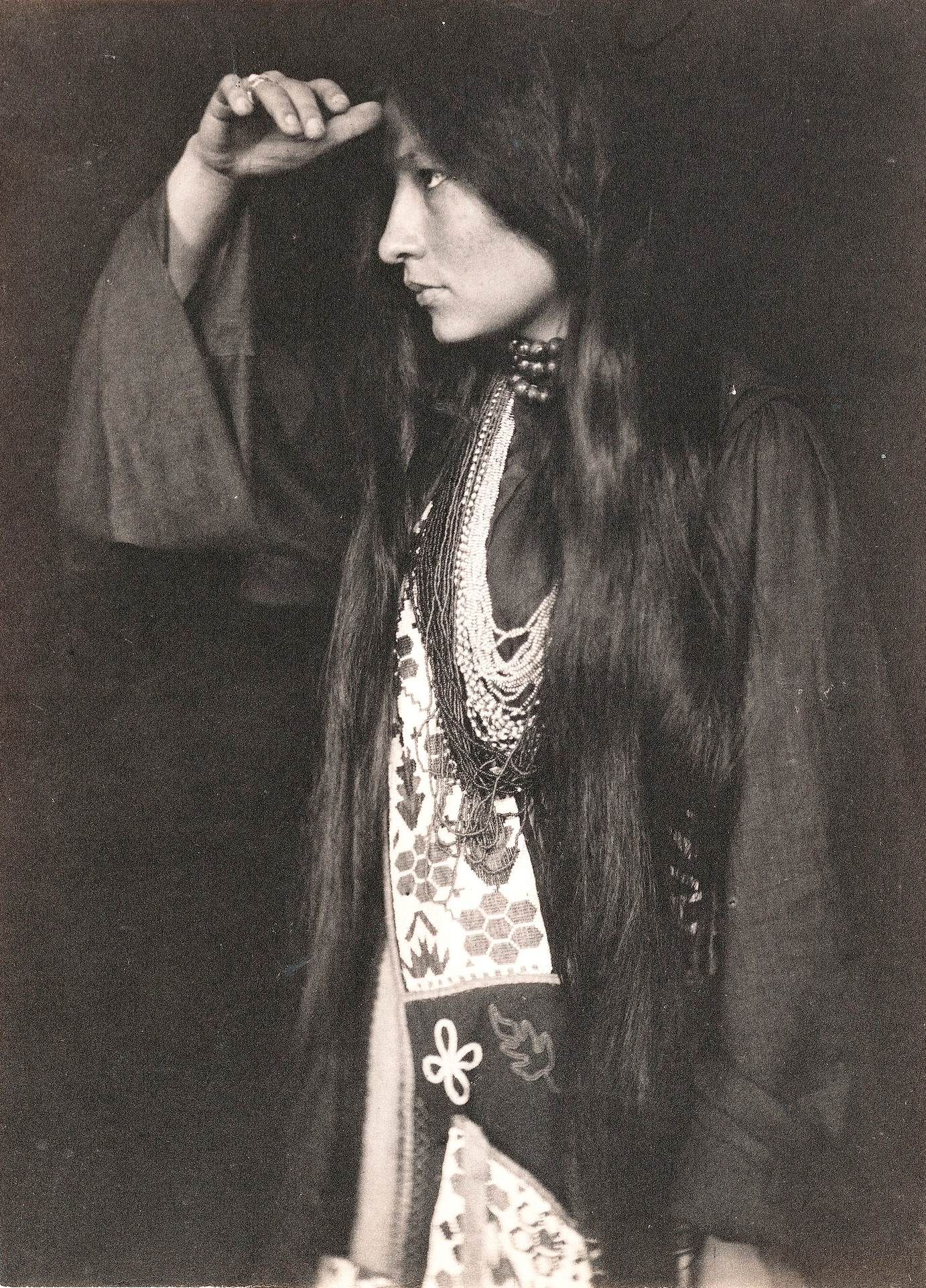 In addition to photographing the Sioux performers sent by Buffalo Bill Cody to her studio, Käsebier was able to arrange a portrait session with Zitkala Sa, "Red Bird," also known as Gertrude Simmons (1876-1938), a Yankton Sioux woman of Native American and white mixed ancestry. She was born on the Pine Ridge Reservation in South Dakota, like many of the Sioux traveling with the Wild West show. She was educated at reservation schools, the Carlisle Indian School, Earlham College in Indiana, and the Boston Conservatory of Music. Zitkala Sa became an accomplished author, musician, composer, and dedicated worker for the reform of United States Indian policies. Käsebier photographed Zitkala Sa in tribal dress and western clothing, clearly identifying the two worlds in which this woman lived and worked. In many of the images, Zitkala Sa holds her violin or a book, further indicating her interests. Käsebier experimented with changing backdrops, including a Victorian floral print, and photographic printing. She used the painterly gum-bichromate process for several of these images, adding increased texture and softer tones to the photographs.